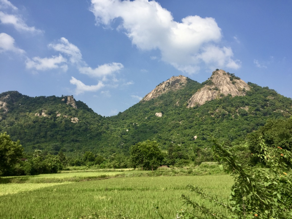 Ayodha Hills at Baghmundi in Purulia.